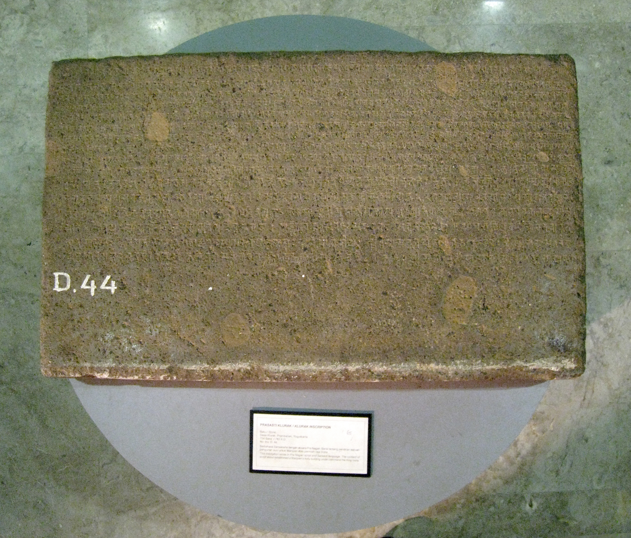 Manjusrigrha inscription also known as Kelurak inscription is an insription dated from 792 CE which was found in 1960 in Kelurak village, north of Prambanan. The inscription mentioned about the construction of a temple complex named “Manjus’ri grha” (The House of Manjusri). Manjusri is a Boddhisatva in Mahayana Buddhist teaching. Manjusrigrha temple is now identified with Sewu Temple, it was probably built in the 8th century at the end of Rakai Panangkaran reign.